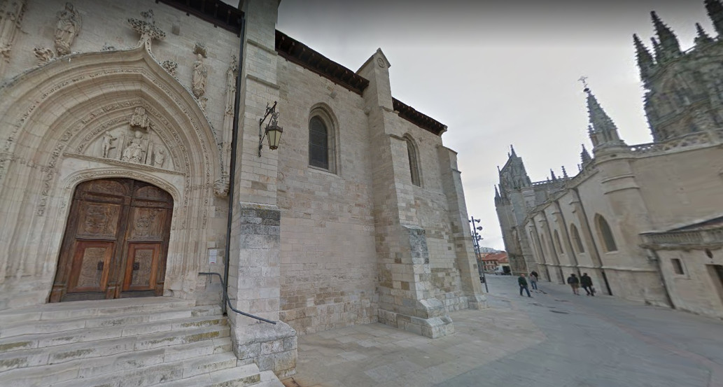 IglesiaSanNicolasdeBaribehindBurgosCathedral